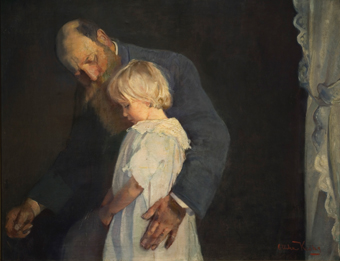 depicting the artists daughter Nana and husband Christian Krohg